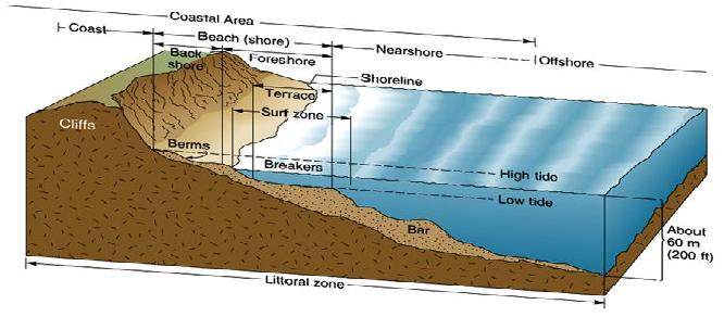 The littoral regions are divided into into several zones. From (Link Removed by Request of Content Host - USN) Link appears to have ceased to exist - along with its server!